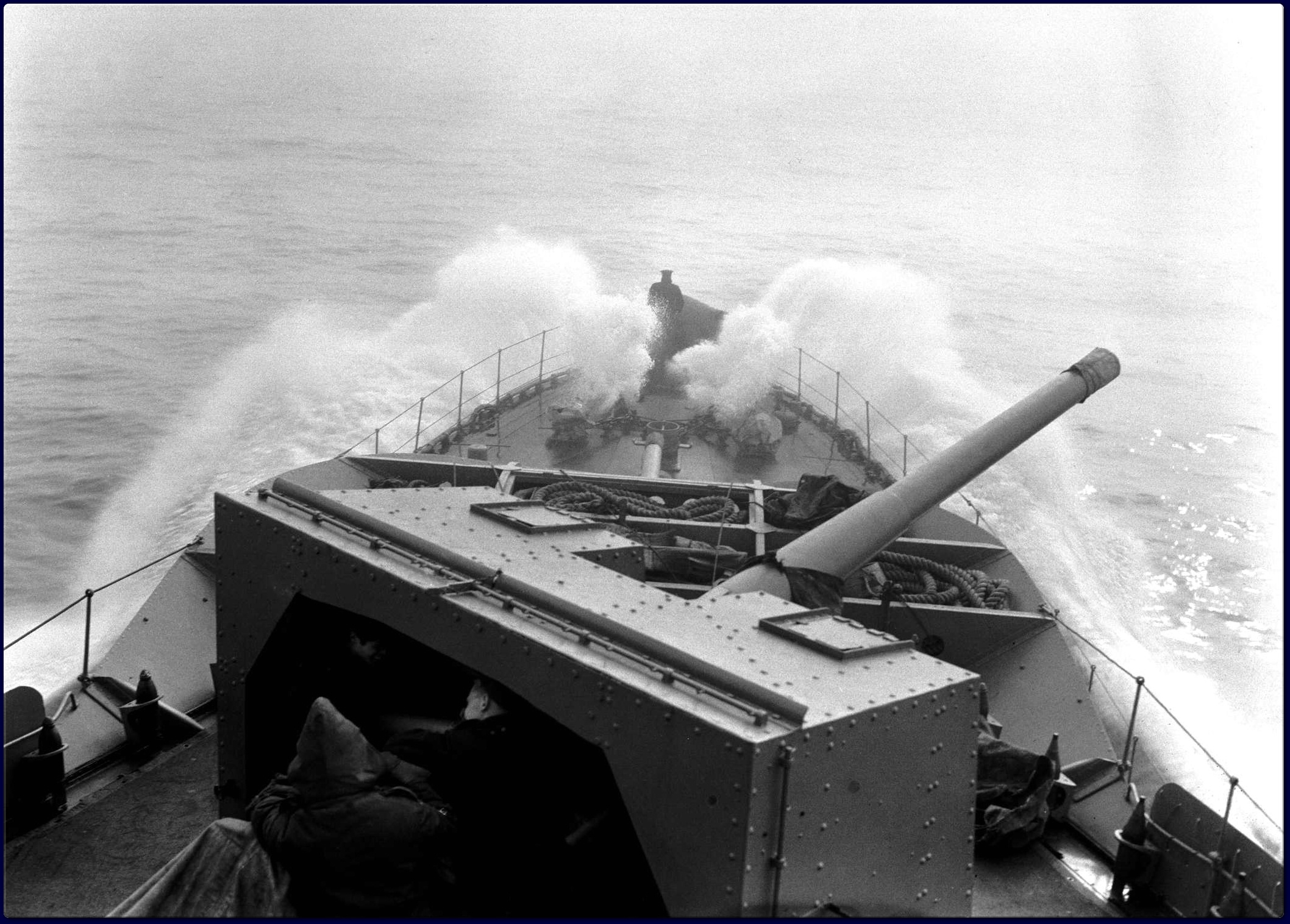 The foc'sle of Canadian destroyer HMCS Assiniboine showing "B" gun and the fog lookout closed up in the eyes of the ship. The gun crew are visible sheltering behind the shield. Comment : this is a QF 4.7-inch Mk IX gun.